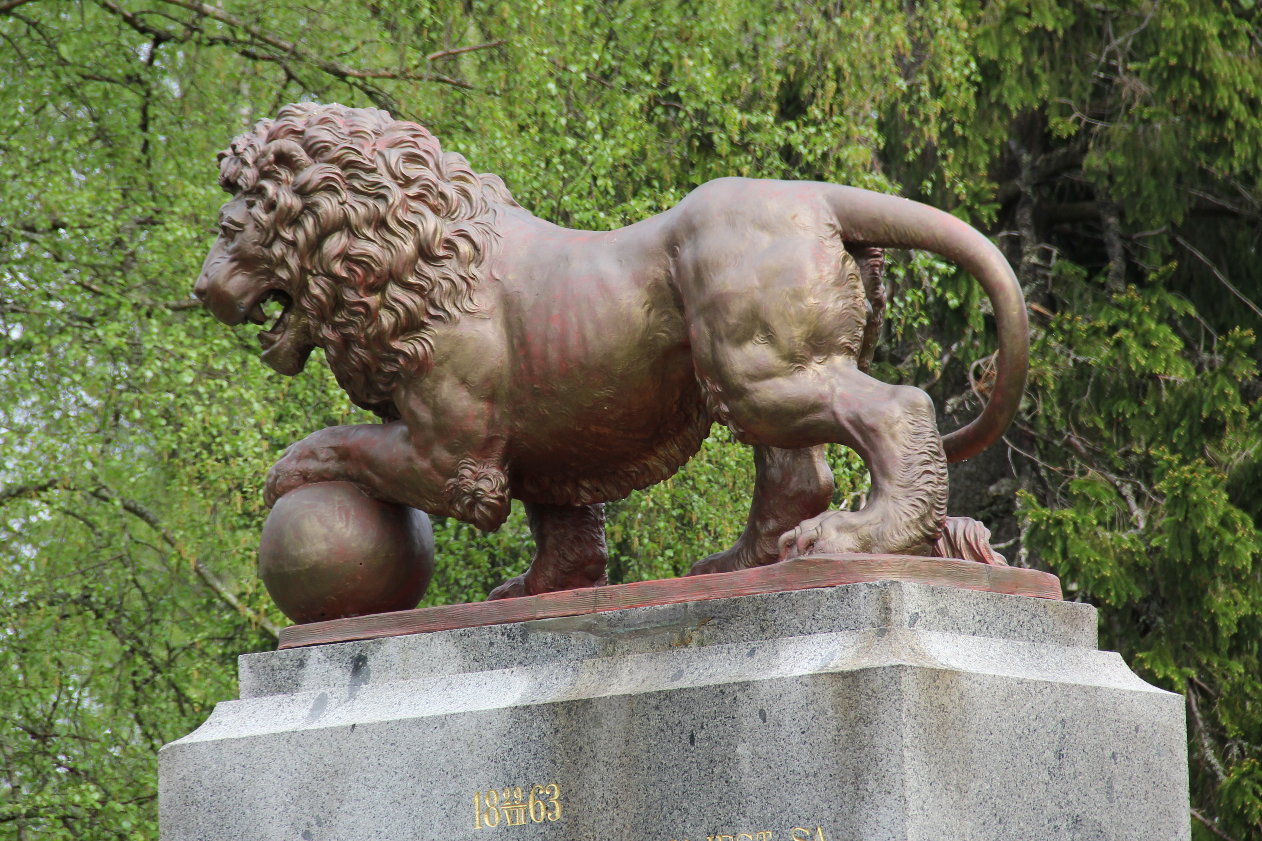 Parolan Leijona (The Parola Lion), Hattula, Finland. - A statue by Andreas Fornander, unveiled in 1868.